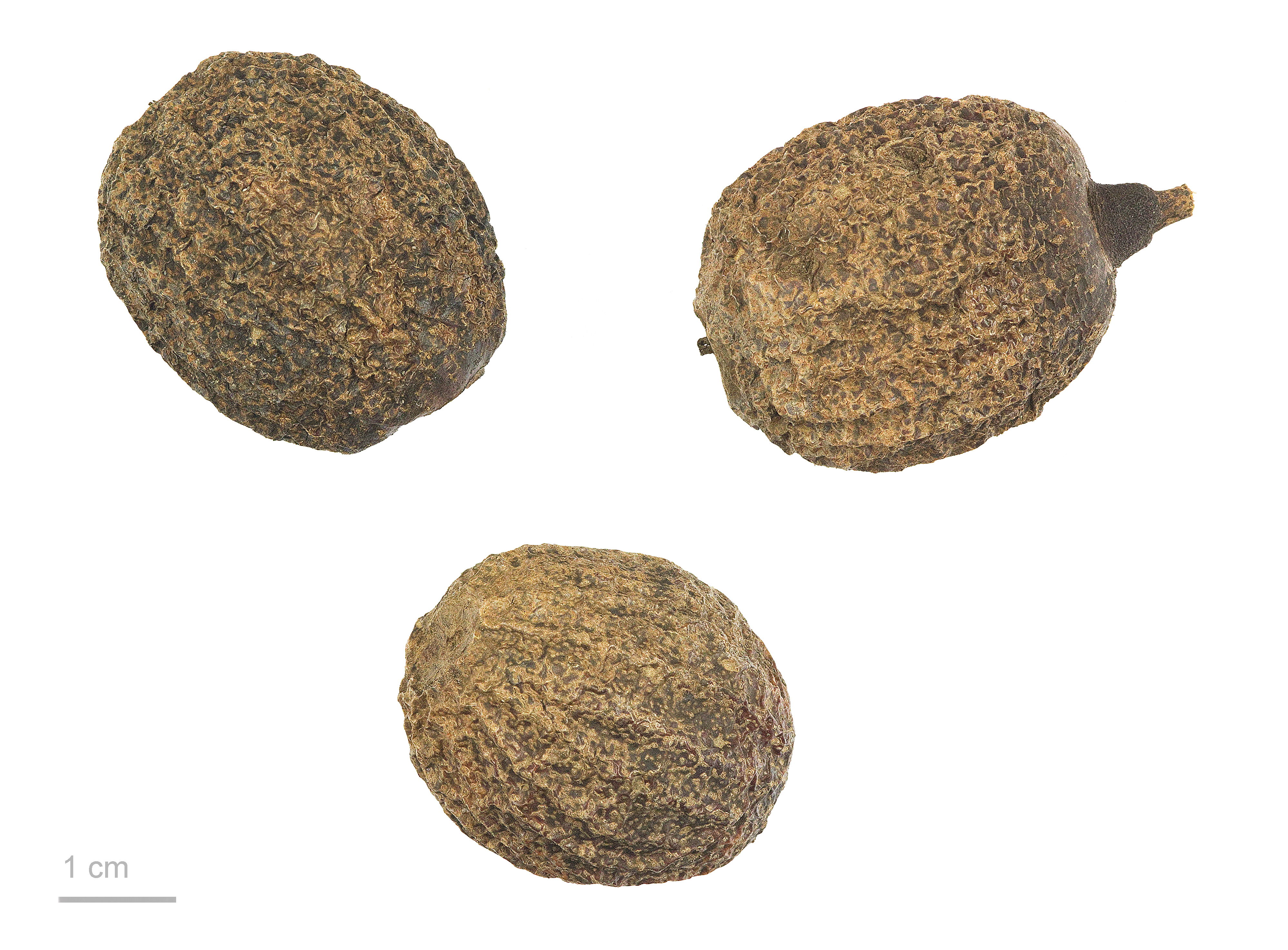 dove tree , fruits and seeds